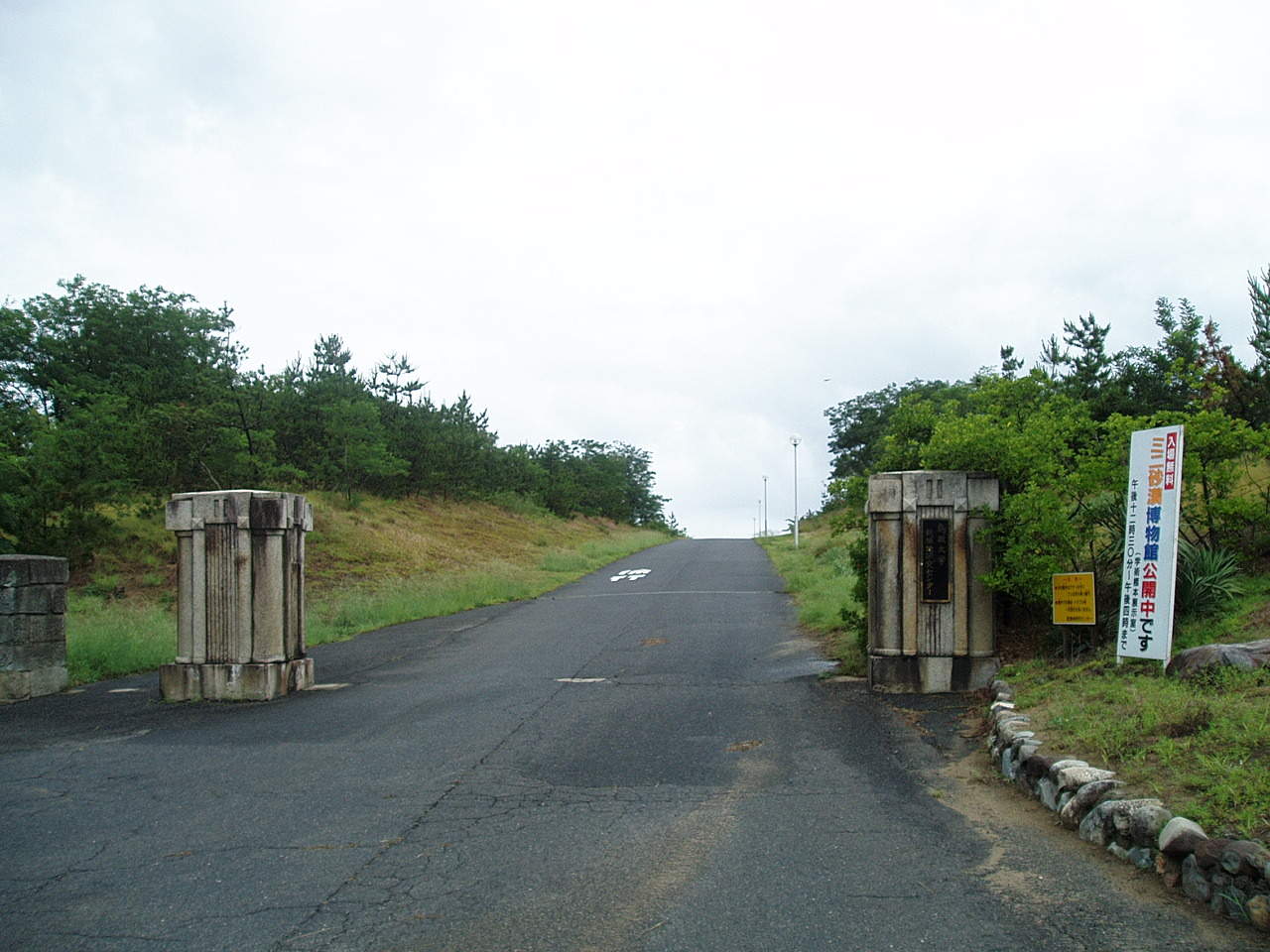 Entrance to Arid Land Research Center, Tottori University, located in Hamasaka, Tottori, Tottori Prefecture, Japan.